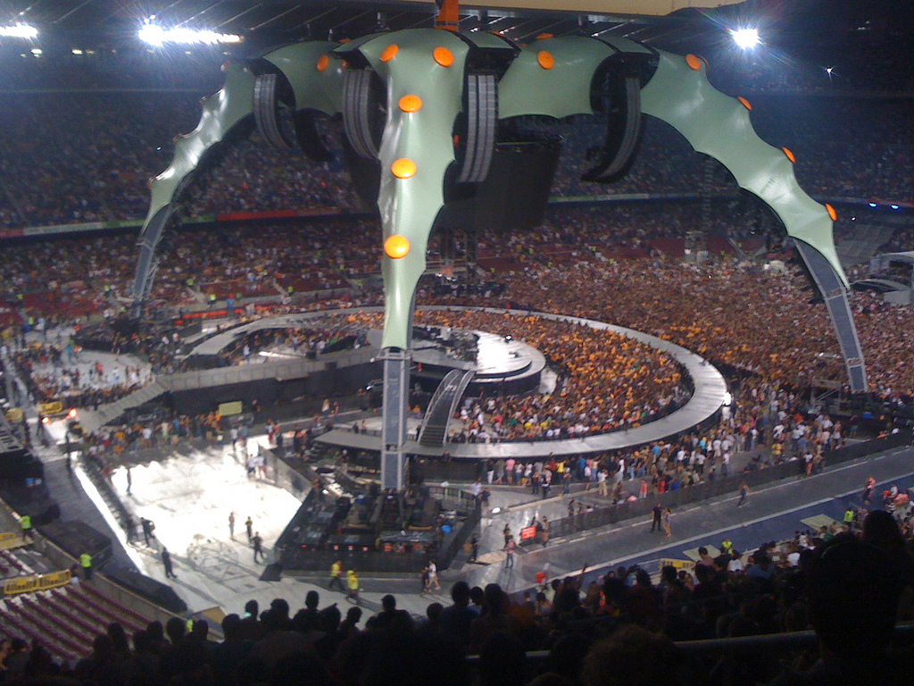 U2, starting 360º Tour in Barcelona (Catalonia)